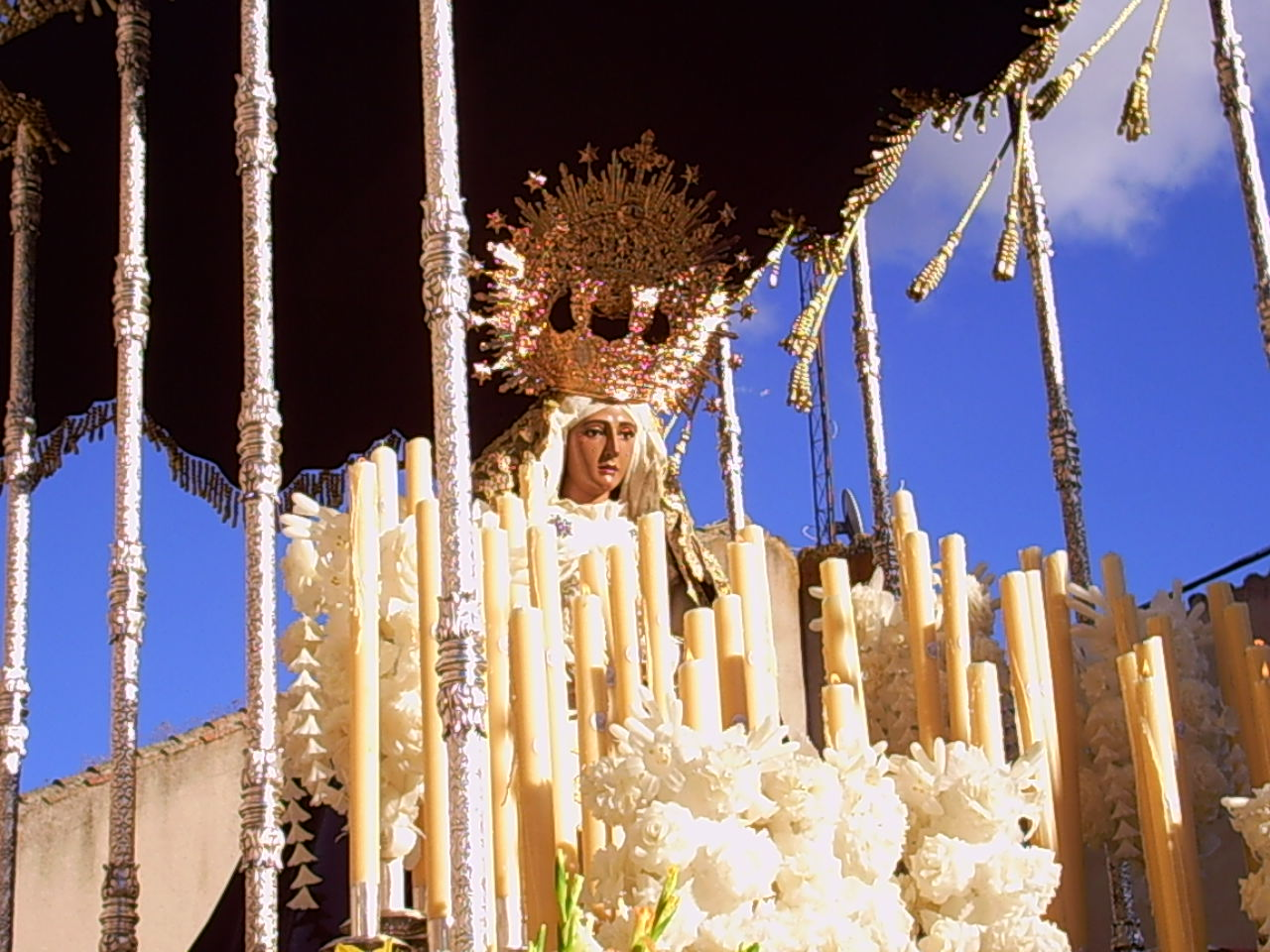 Holy week in Ávila, Spain